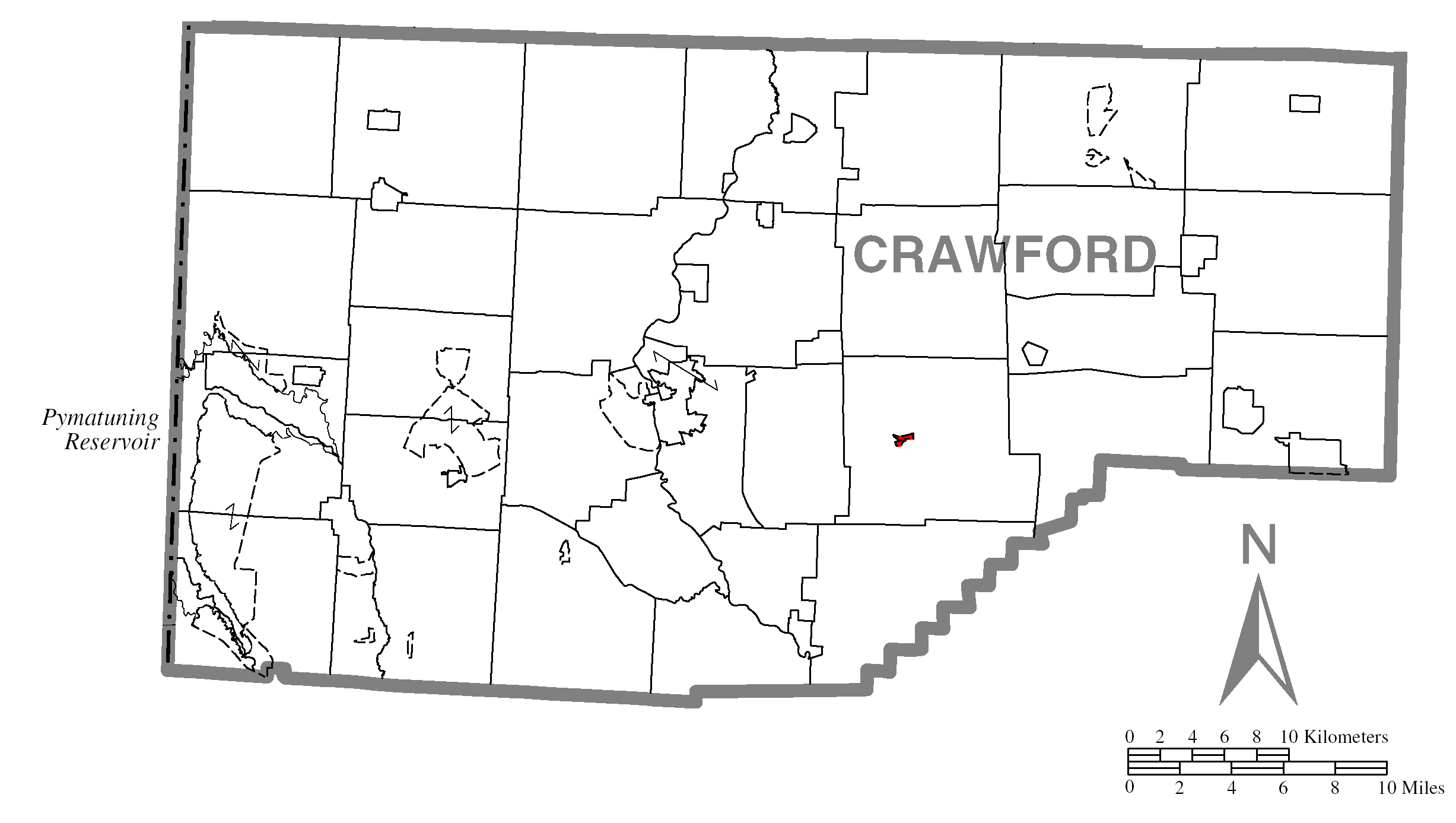 Map of Crawford County higlighting Guy Mills.